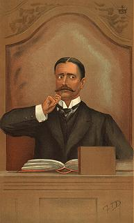 Caricature of Charles Vane-Tempest-Stewart, 6th Marquess of Londonderry (1852-1915). Caption read "The London School Board.